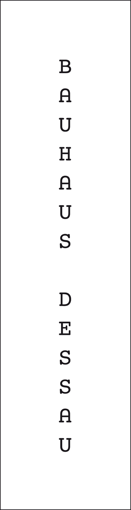 Logo der Stiftung Bauhaus Dessau